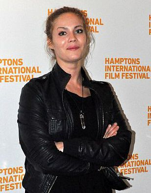 Actress Pihla Viitala attends Breakthrough Performers Brunch during 18th Annual Hamptons Film Festival on October 10, 2010 at Nick & Toni's Restaurant in East Hampton, New York. (Photo © Nick Stepowyj)